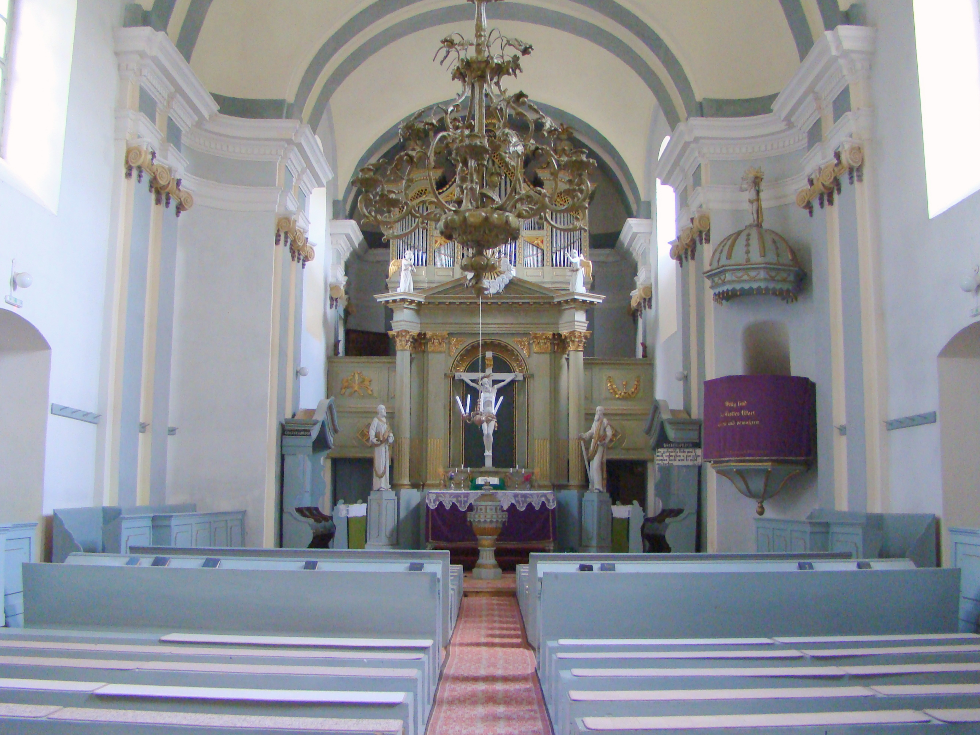 Fortified church in Criț, Brașov county, Romania